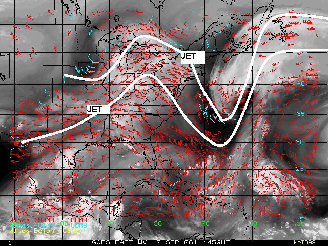 Jet streams superimposed on original picture in Common.